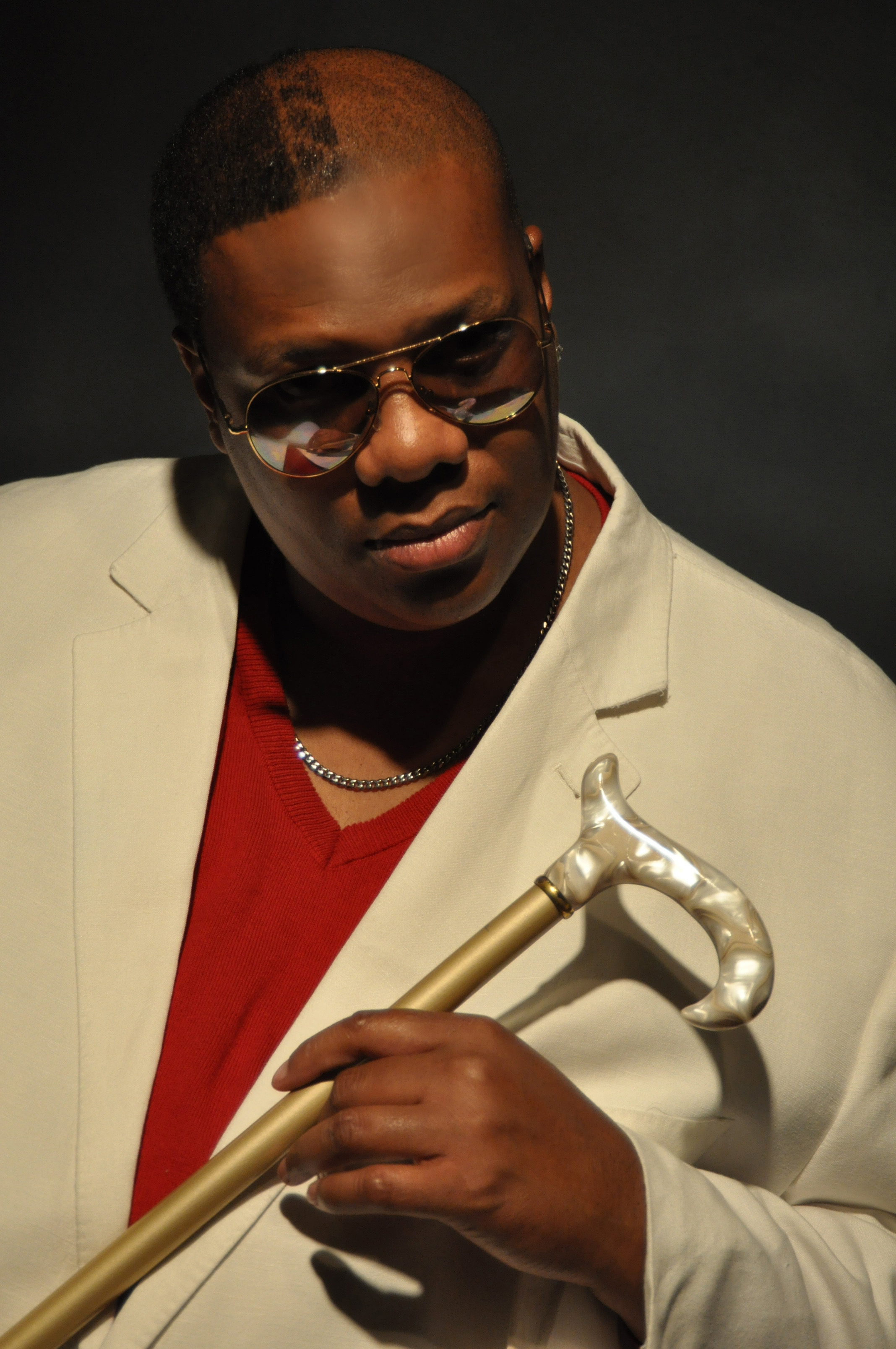 NEW YORK, NY - OCT 10: Singer The Mad Stuntman poses for 'The Return of the Mad Stuntman' album photo shoot on Oct 10, 2014 at celebrity photographer Rob Klein's Studio in New York, New York. (Photo by Rob Klein Photography)